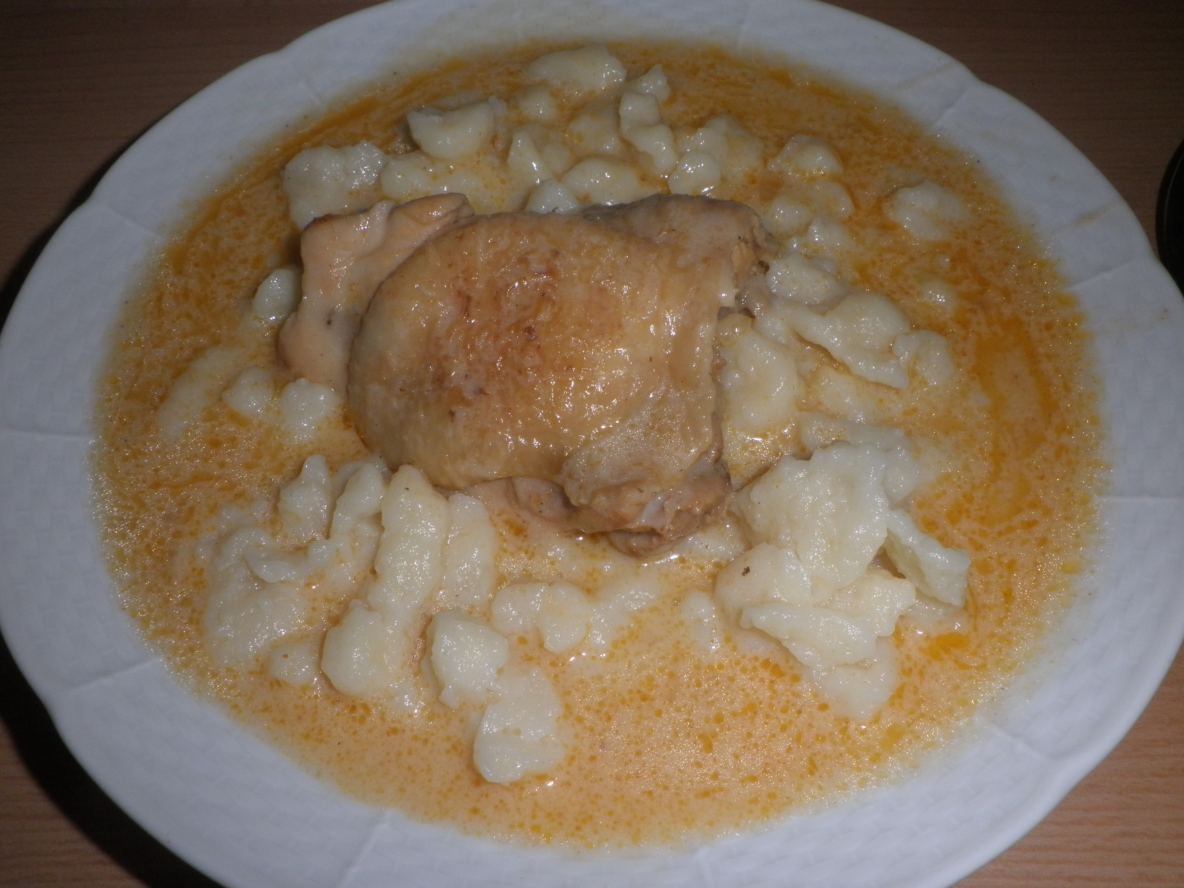 chicken dish with dumplings and cream sauce